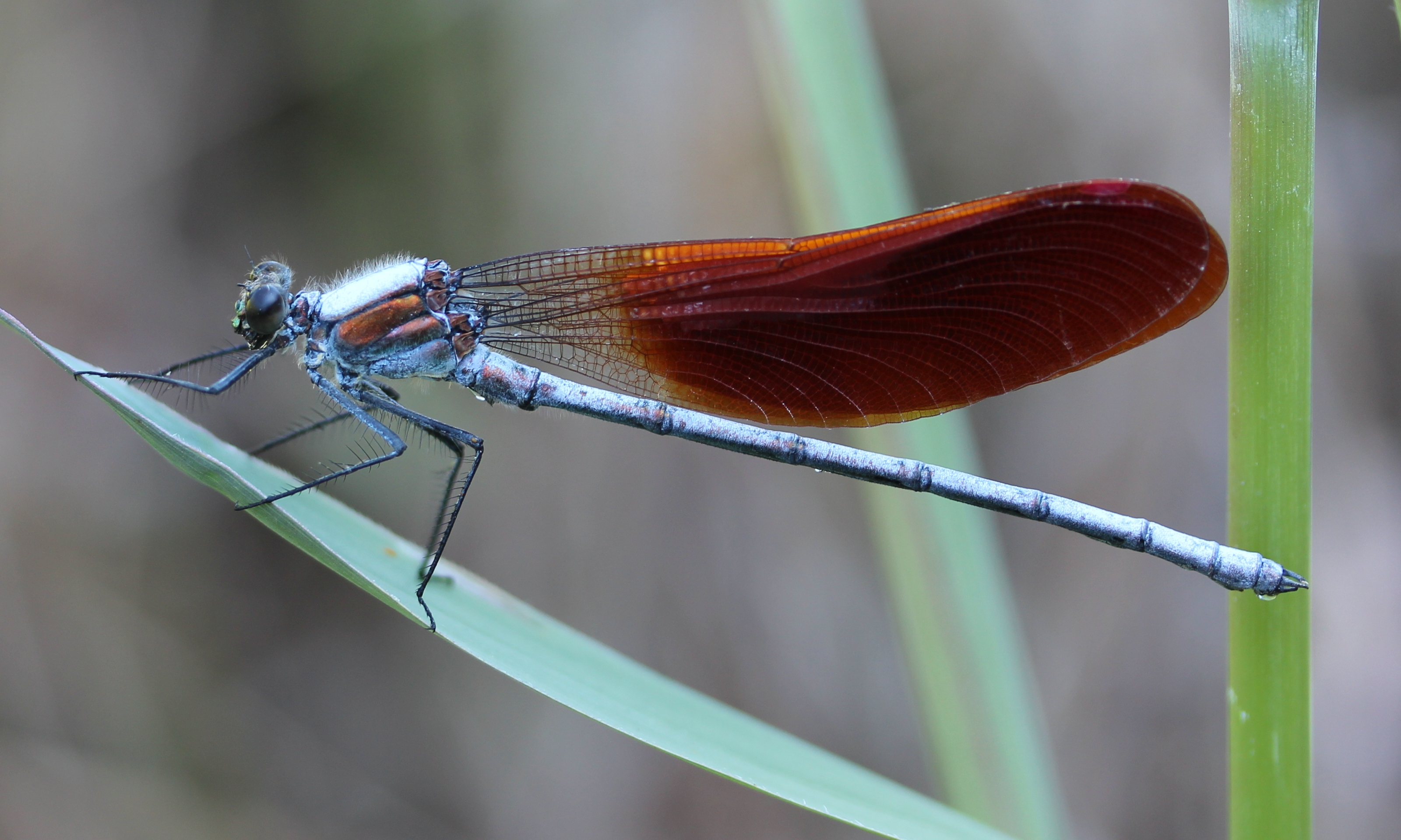 Mnais costalis, male in Japan.